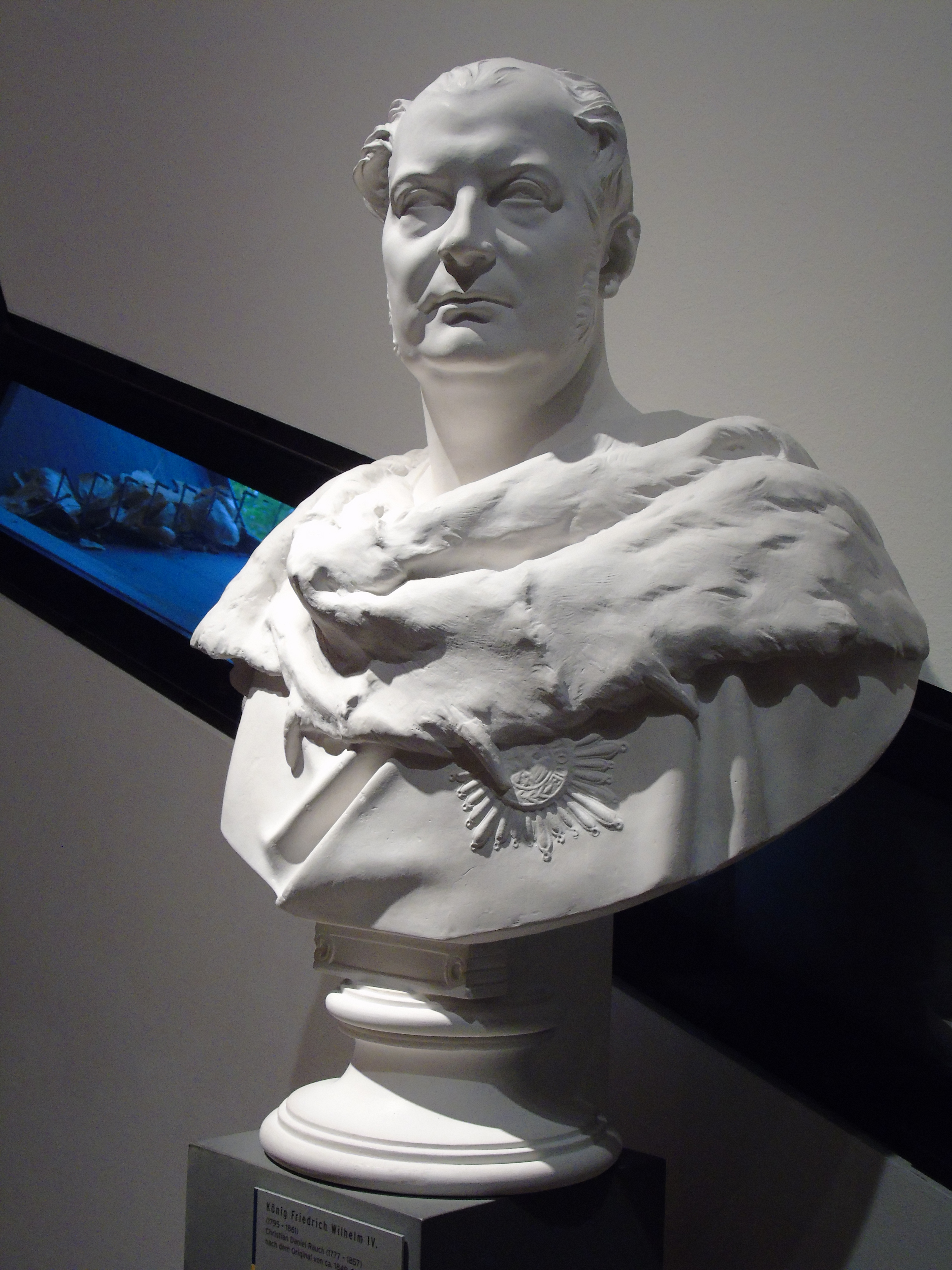 bust of Prussian king Friedrich Wilhelm IV., created by Christian Daniel Rauch, original circa 1840